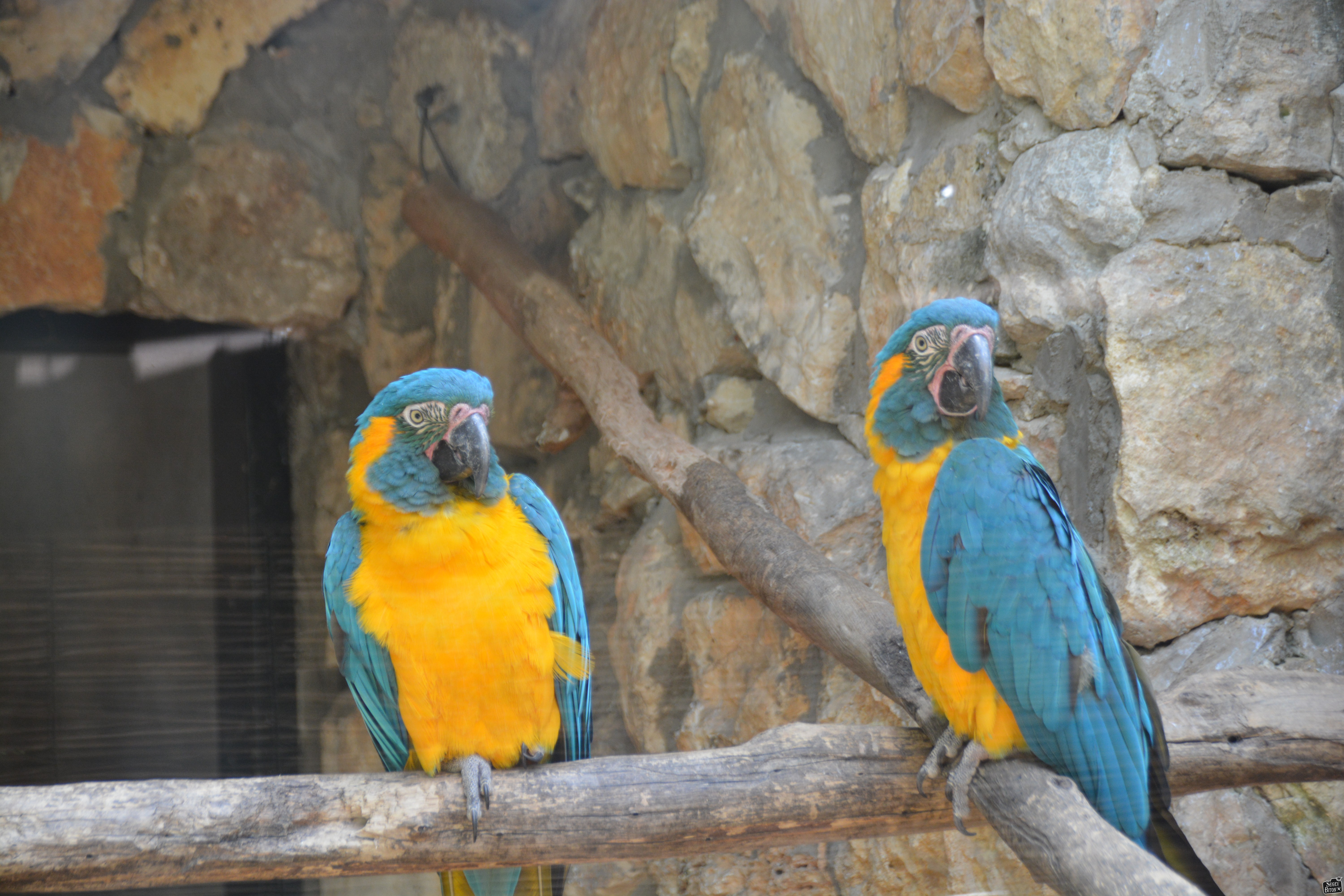 Blue-throated macaws at The Jerusalem Biblical Zoo